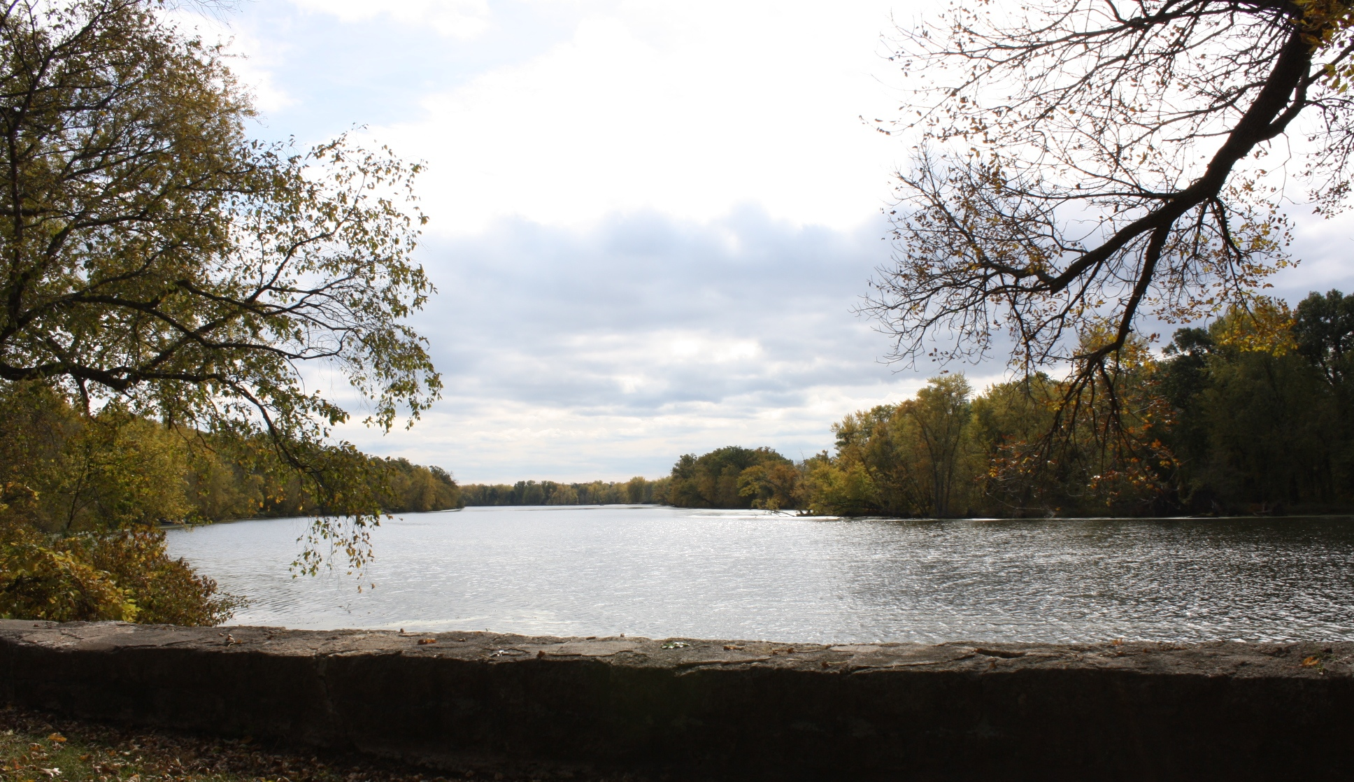 The Mississippi River at Merrick State Park.